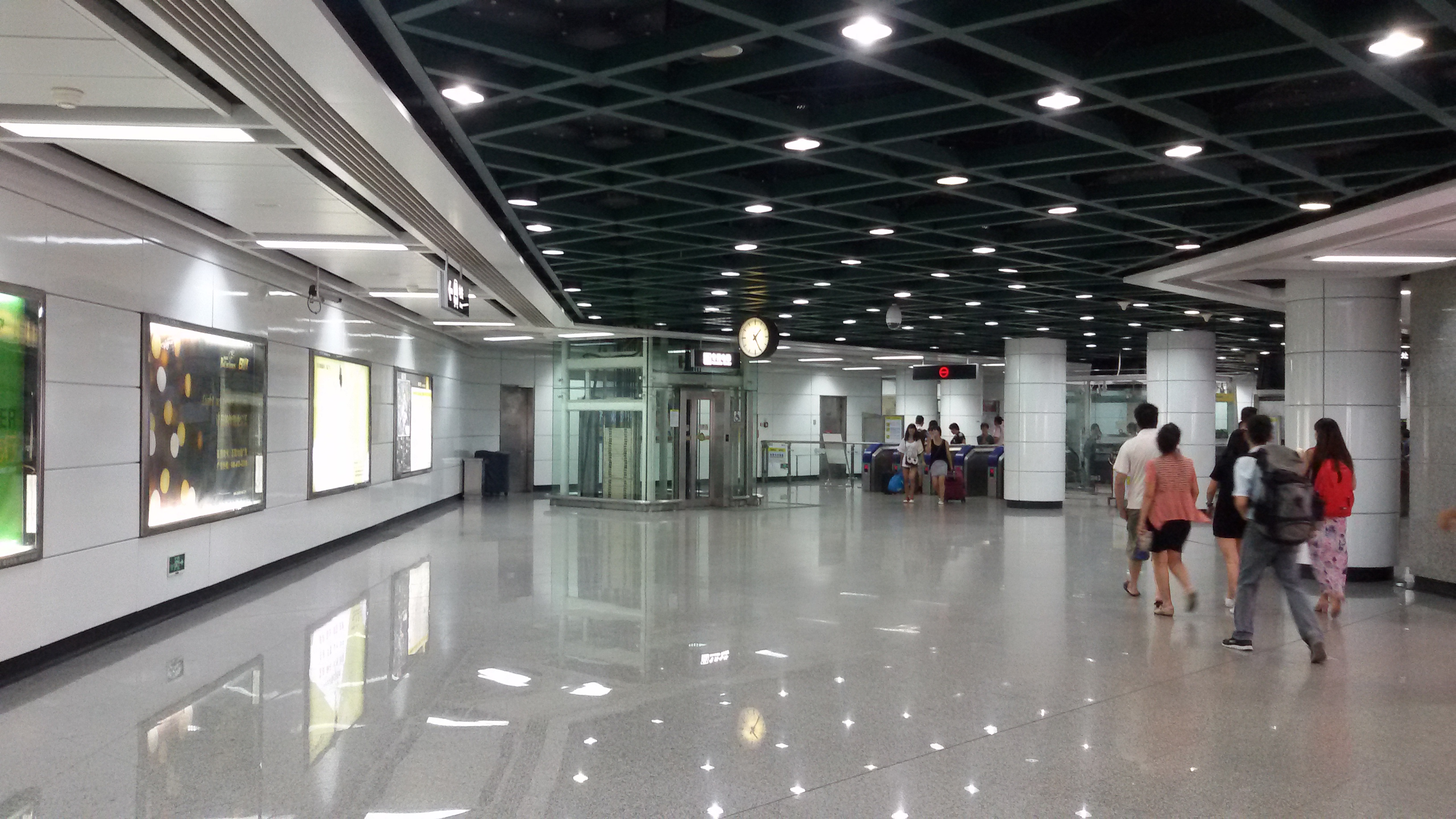 Station concourse for Line 3 in Guangzhou East Railway Station, Guangzhou Metro.